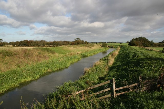 River Till The Roman Road from Ermine Street to Littleborough is known as Tillbridge Lane - this view of the River Till is taken from Till Bridge on Tillbridge Lane.